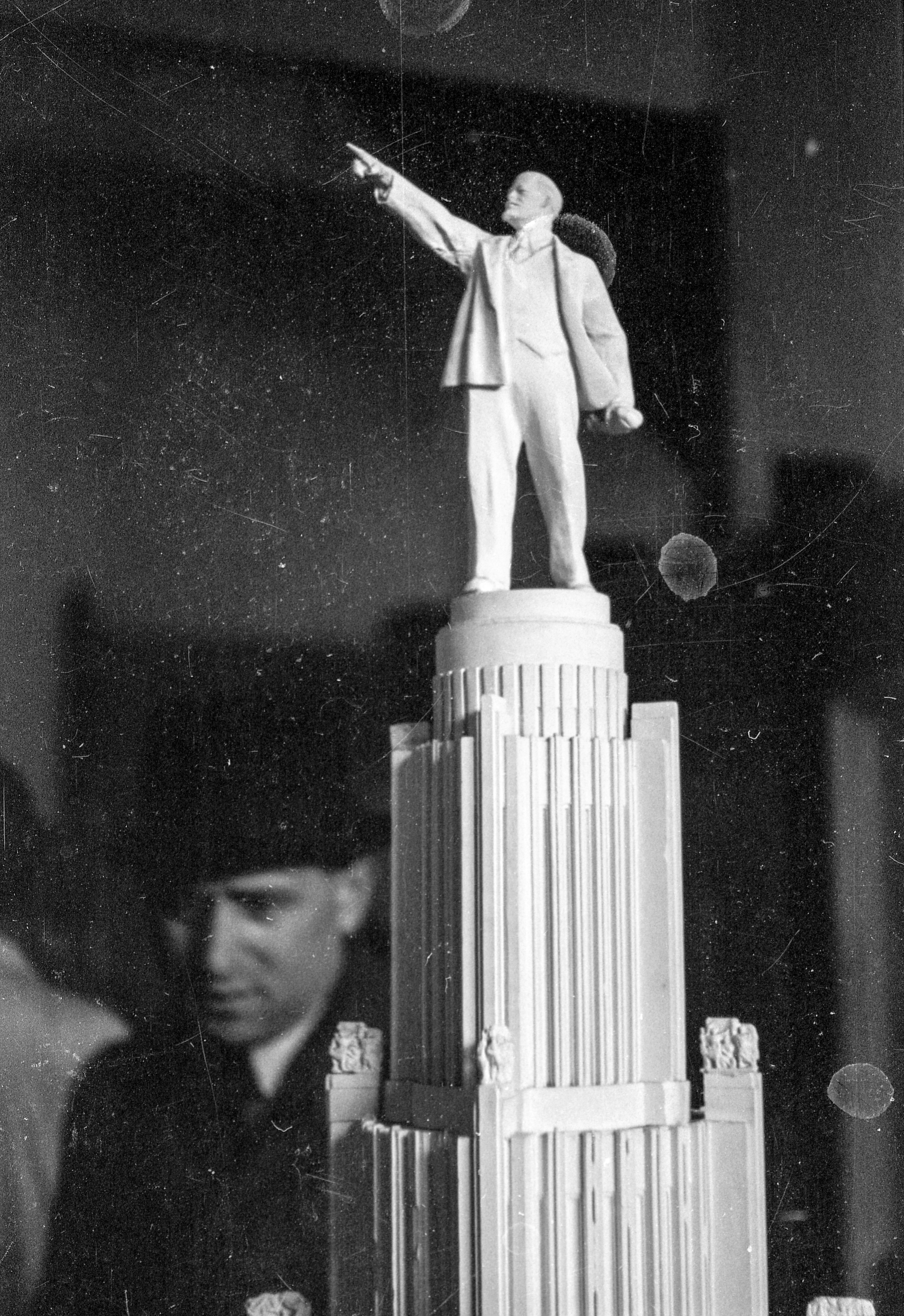 Model of the never-built Palace of Soviets in Moscow. By 1949 the idea was abandoned, but some public display of the pre-WW2 design - like this show in Hungary - kept the failed dream alive. Location: Hungary, Budapest XIV. Tags: Lenin portrayal, Budapest Title: a Moszkvába tervezett, de soha el nem készült Szovjetek Palotájának makettje a szovjet pavilonban.